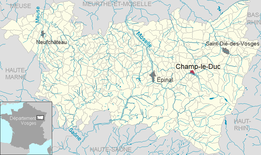 Champ-le-Duc in the department of Vosges, Lorraine, France